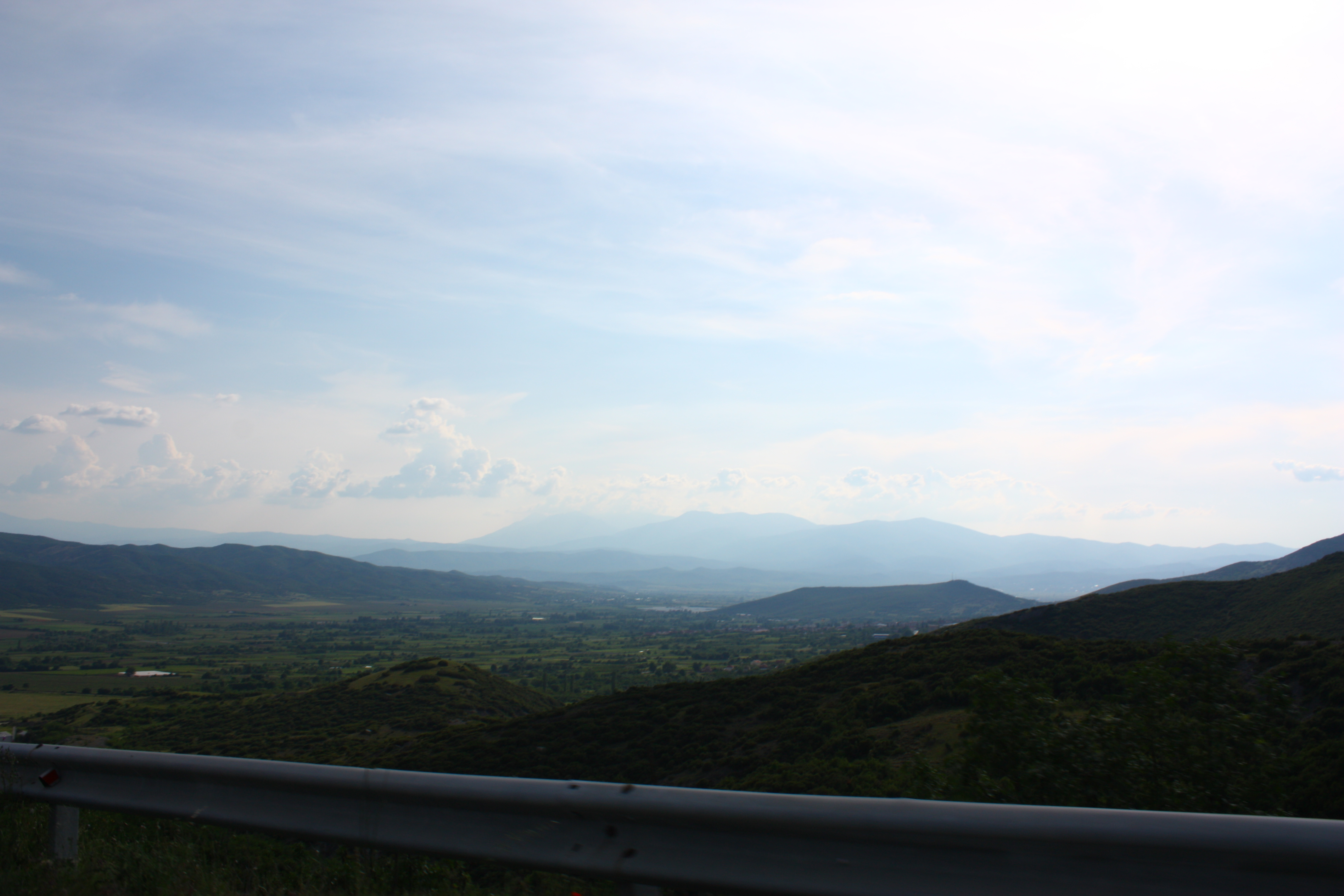 Valandovo Valley, macedonia